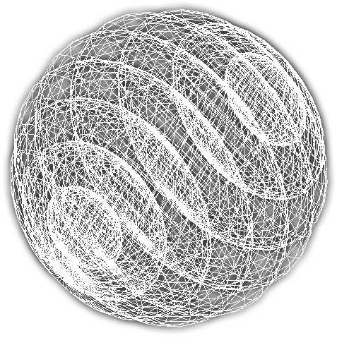 "2D-projection of 3D-projection of Hypersphere of 4D-space"